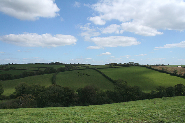 North Petherwin: near South Wheatley Looking east-south-east in the direction of Maxworthy